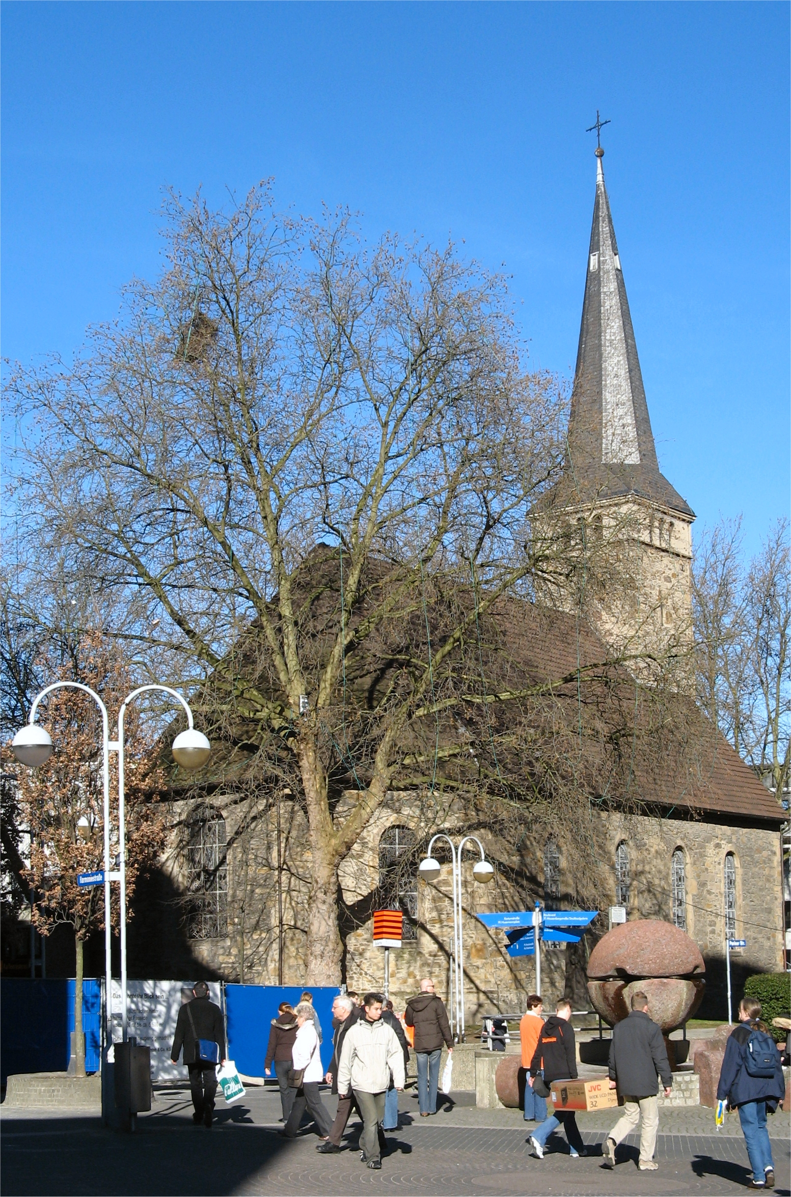 Pauluskirche, die älteste protestantische Kirche der Innenstadt. Sie wurde nach dem Westfälischen Frieden von 1648 zwischen 1655 und 1659 als schlichtes Renaissancegebäude errichtet. Nach einem Bombenangriff auf Bochum am 12. Juni 1943 brannte sie völlig aus und wurde 1950 im ursprünglichen Stil einer Dorfkirche wieder aufgebaut. Paulus-church, the oldest protestant church within the city. It was built between 1655 and 1659 as a simple renaissance building after the Westphalien-Peace of 1648. It burned down completely during an air attack on the 12th of June 1943. After the war it was reconstructed in its former style as a village-church.